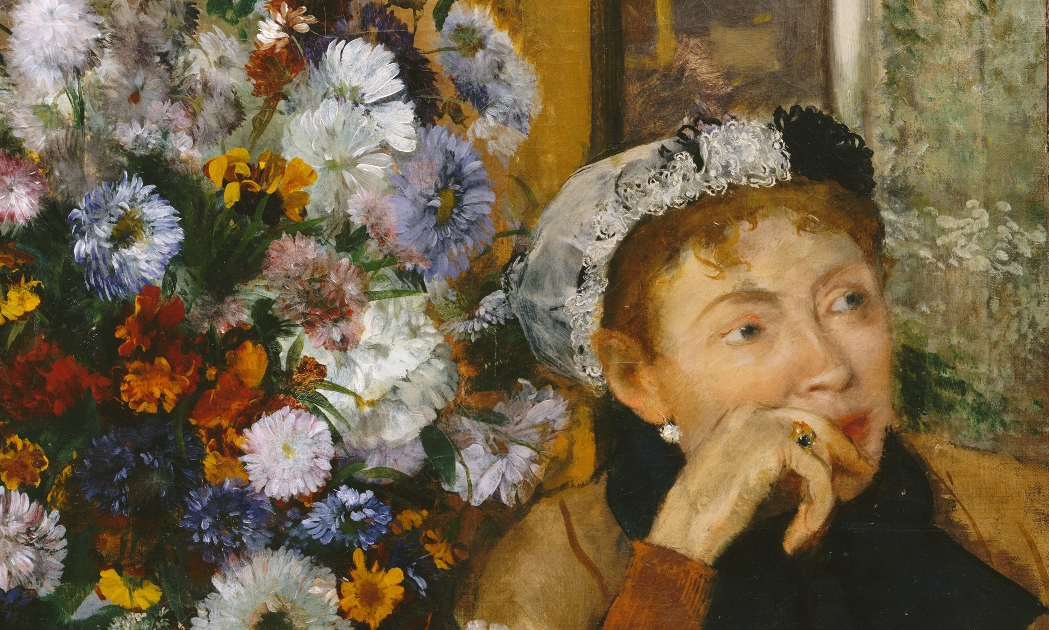 A Woman Seated beside a Vase of Flowers by Edgar Degas, detail